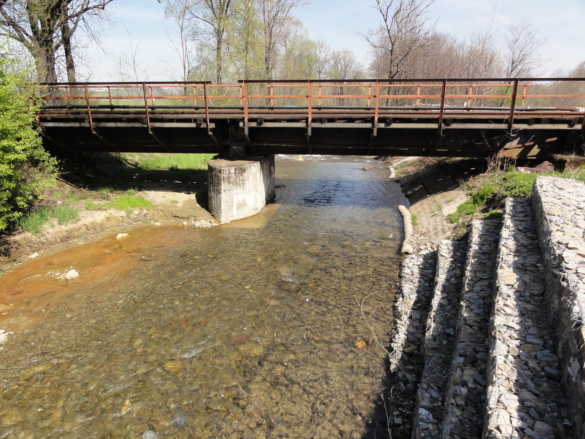 Railroad bridge over a stream in Jasienica nearby train stop.